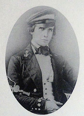 Old US Gov photo of Seth Ledyard Phelps